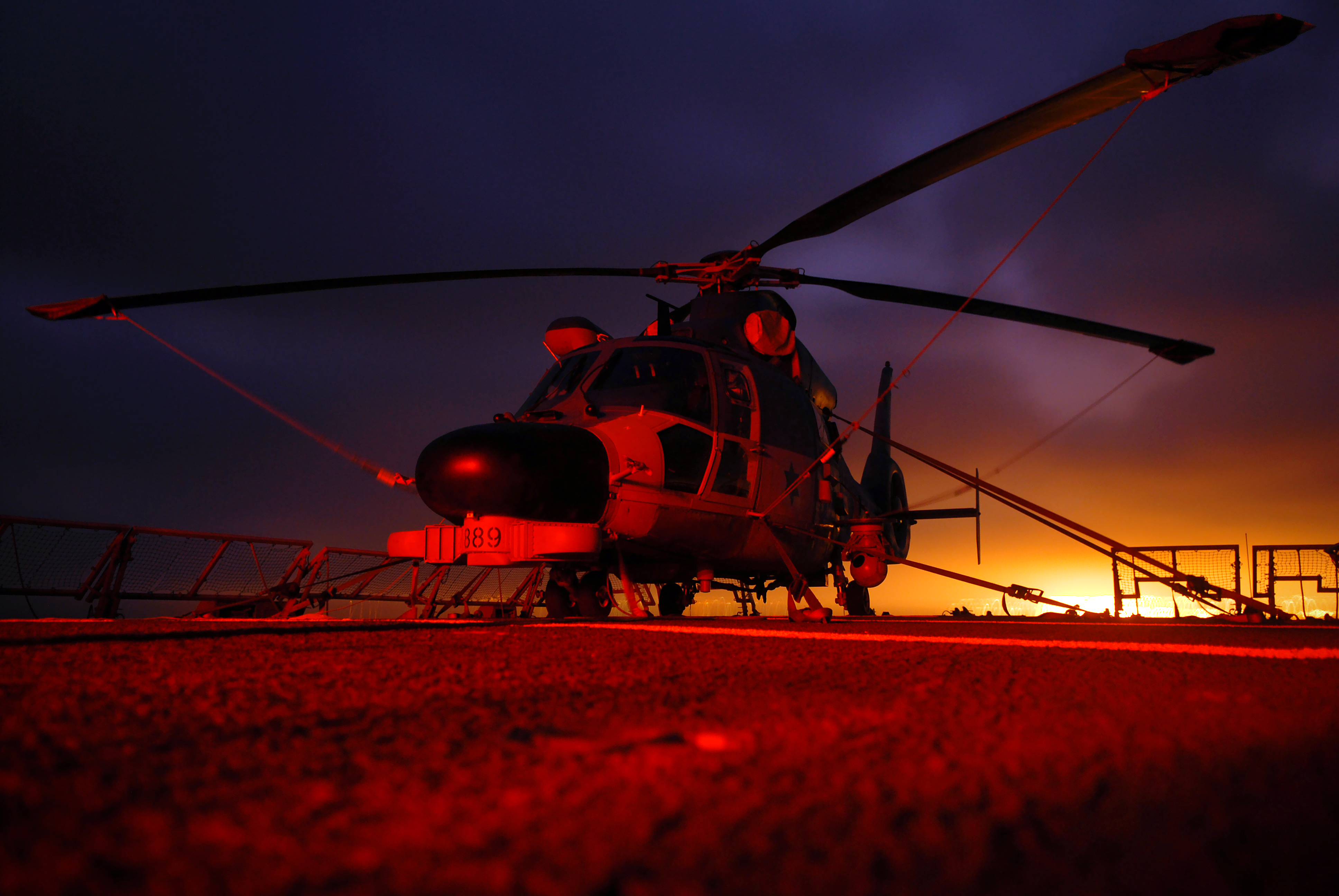 July 14, 2010. The Eurocopter AS565 Panther ("Atalef") helicopter, used by the IDF Navy, rests on the deck of an IDF ship. Photo by Cpl. Yarden Man, IDF Spokesperson's Film Unit.